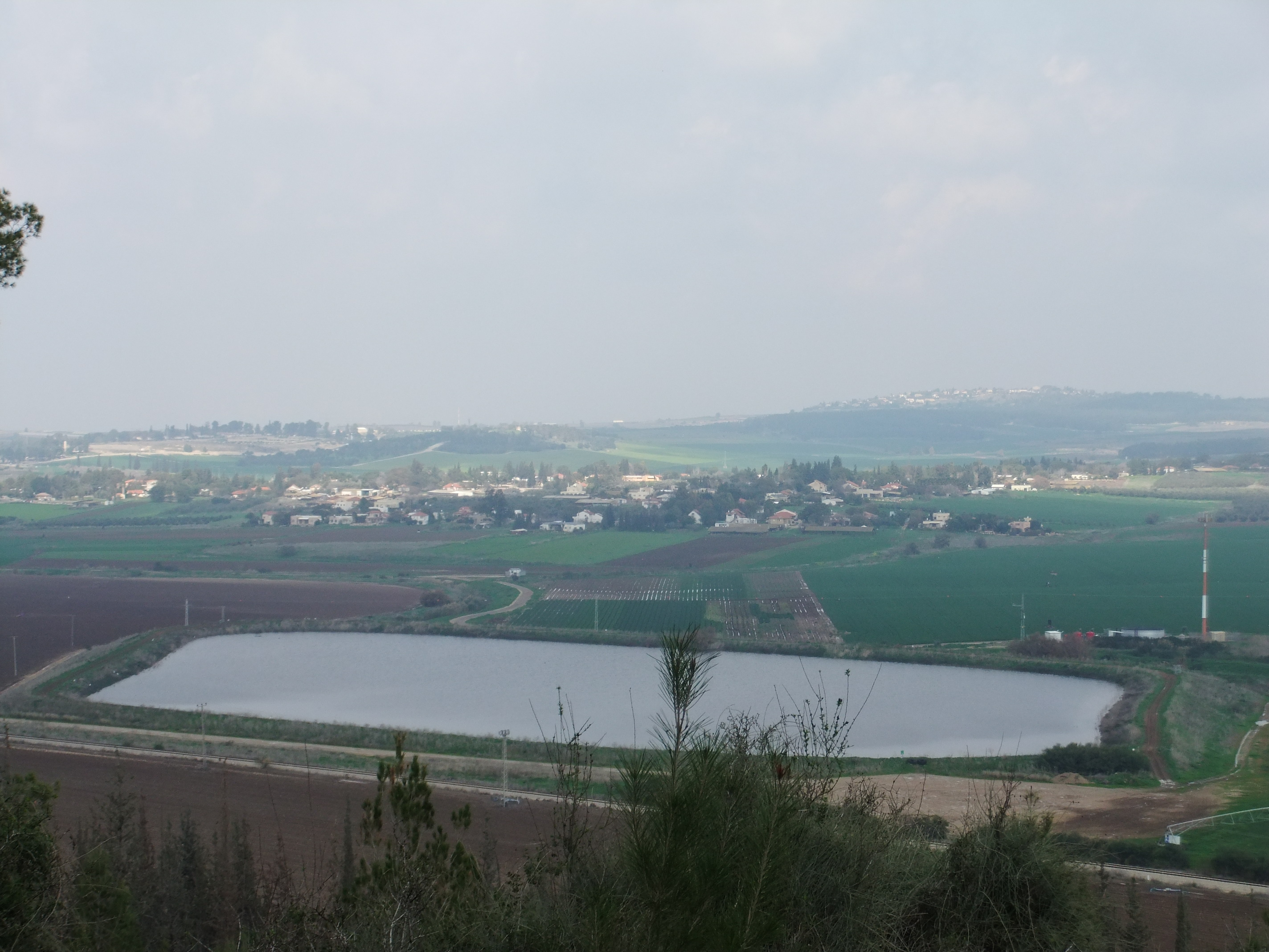 Moshav Tal Shachar from the south (Givat Harakafot). Behind on the right is Karmei Yosef. Behind on the left is Mishmar David (mainly hidden). The memorial for Israel Engineering Corps is seen on the left.